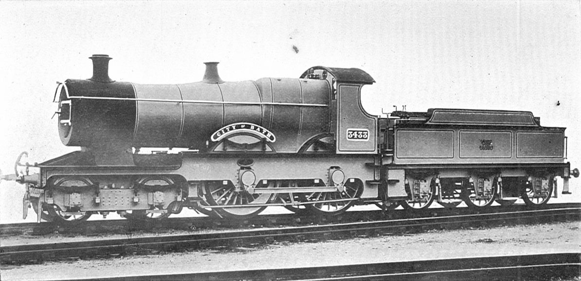 Great Western Railway: "City" class, fitted with "Taper" boiler and Belpaire firebox